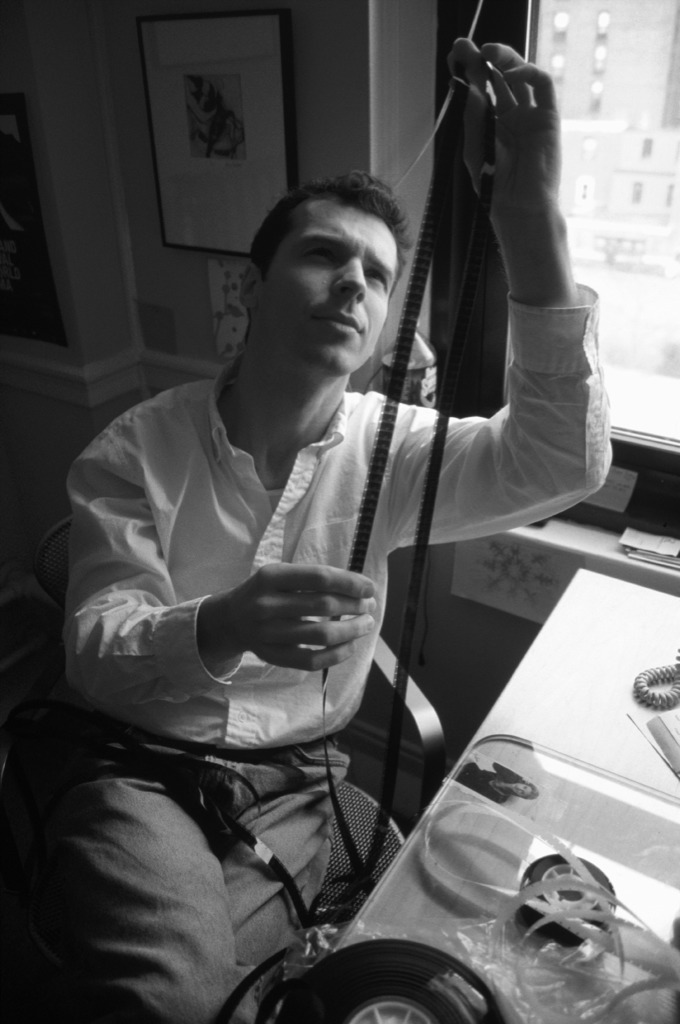 Part of a series of portraits of leaders in the queer community. Portland, Maine. 2002.